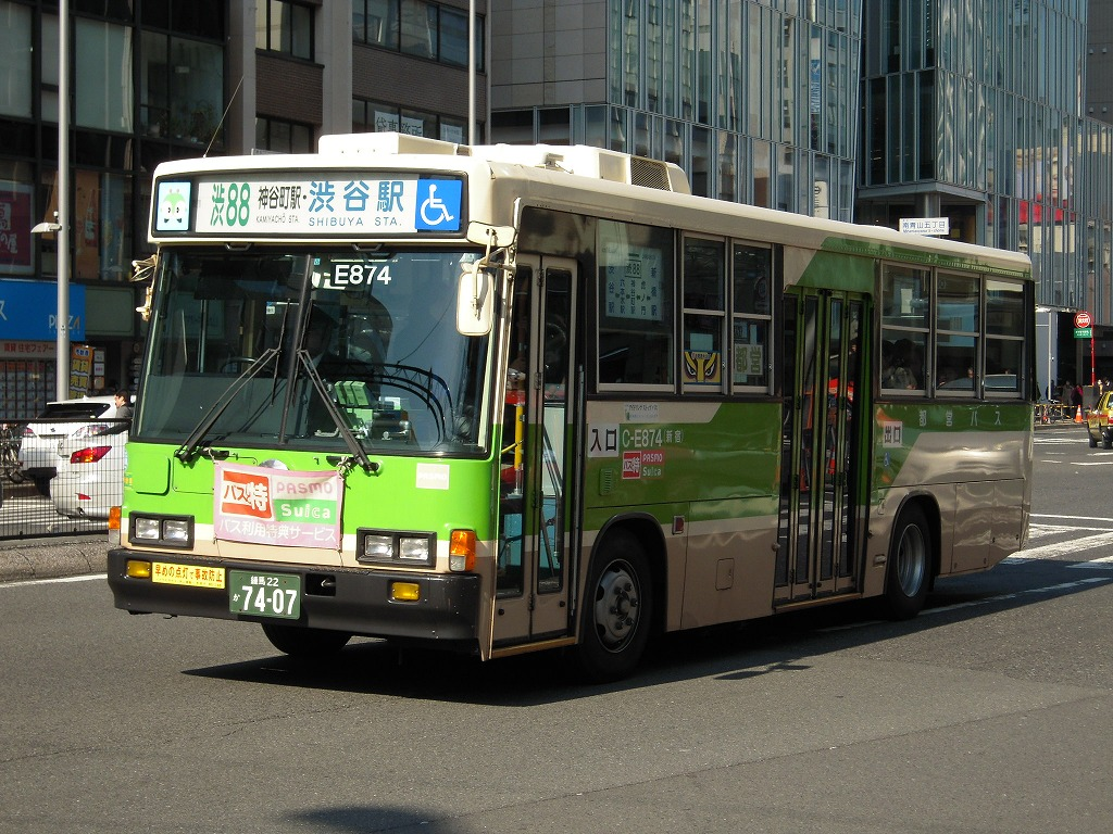 Tokyo Toei bus (Shinjuku) Isuzu Journey K